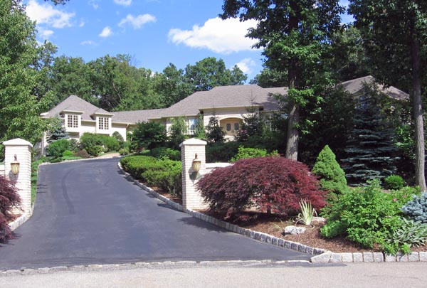 The beautiful and real-life Soprano house in North Caldwell, New Jersey.